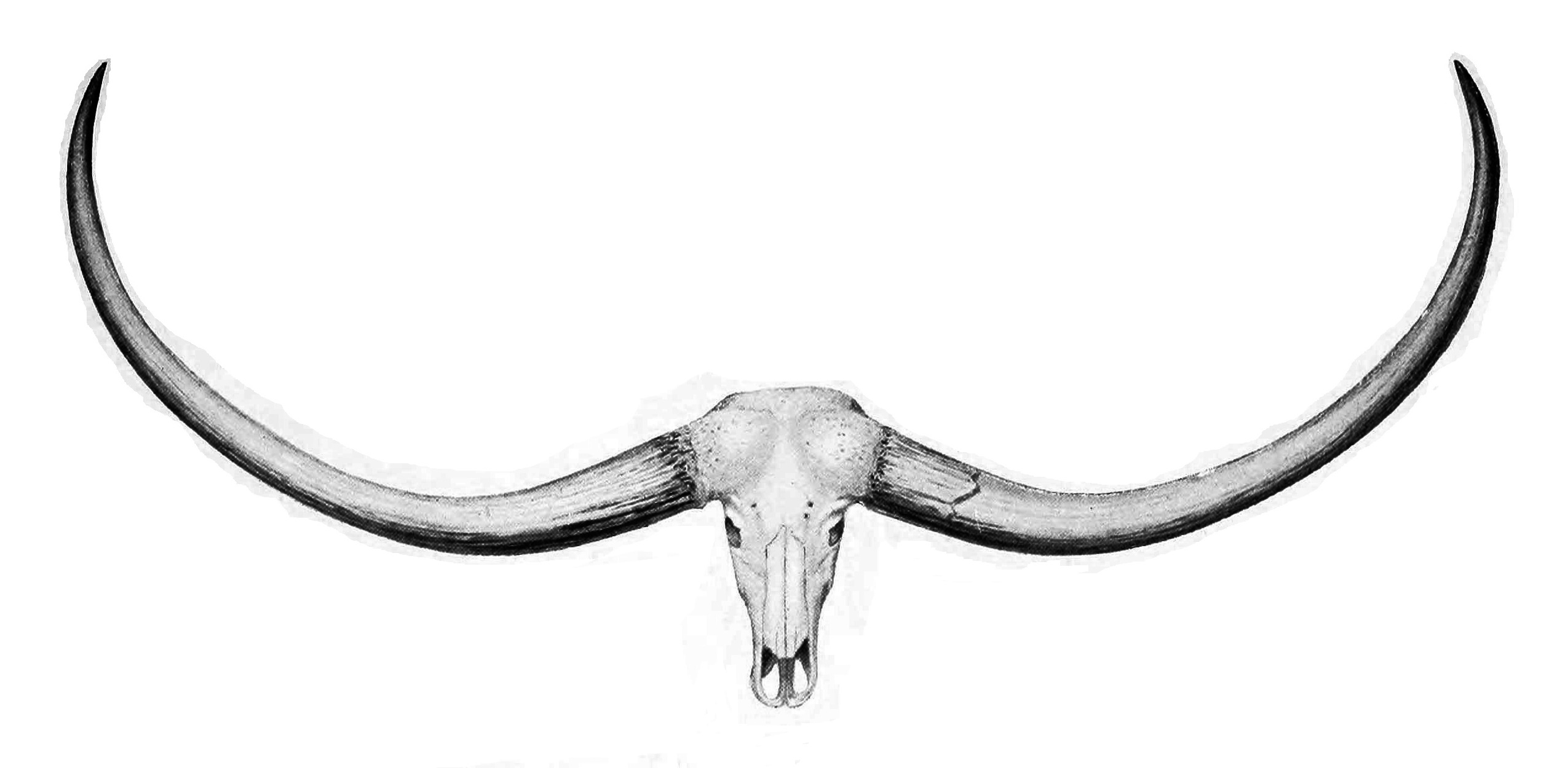 Algerian Buffalo Pelorovis antiquus (= Bos antiquus, Bubalus antiquus), Pleistocene - Holocene, Africa. [1]